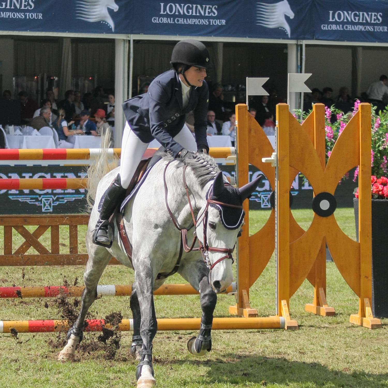 Jessica Springsteen and Zero at the Pfingstturnier Wiesbaden in 2013